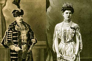 Nikolaus IV, prince Esterházy de Galántha, and his wife Margit Cziráky in an official photograph